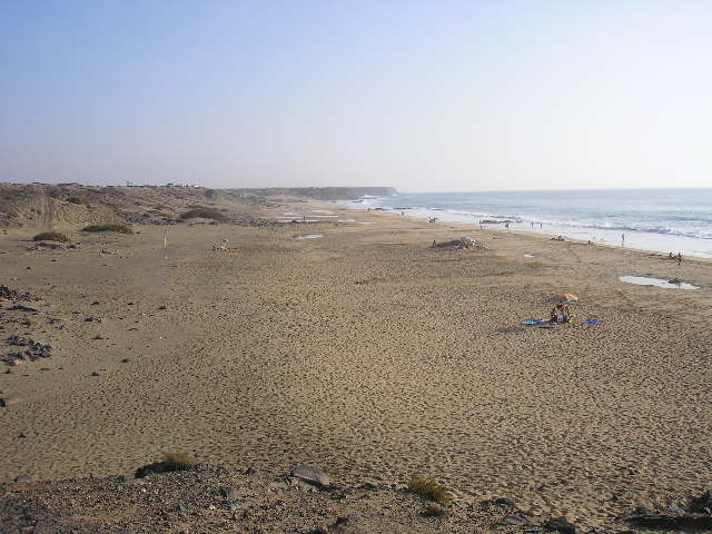 El Cotillo Berach, northwest of Fuerteventura (Canary Islands, Spain)